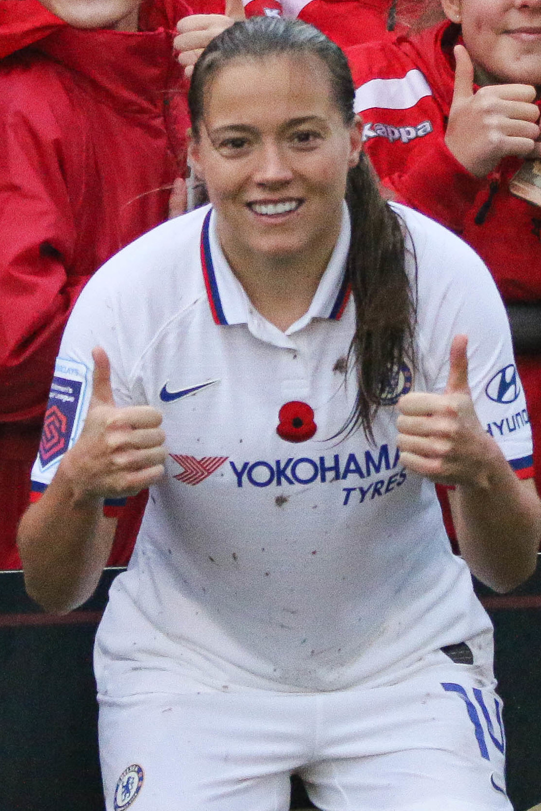 Lewes FC Women 1 Chelsea Women 2 Conti Cup 02 11 2019-519.jpg